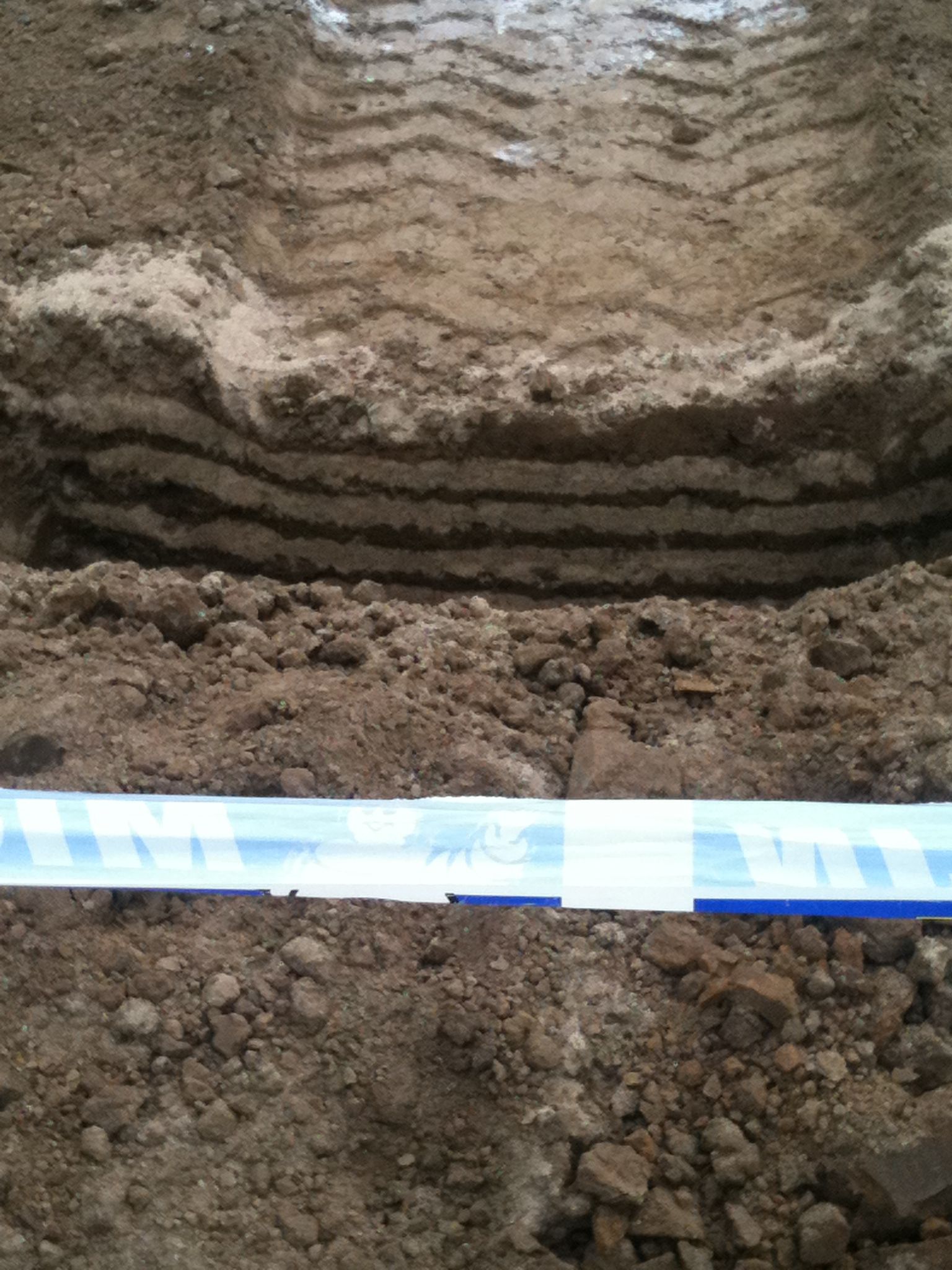 Soil compaction